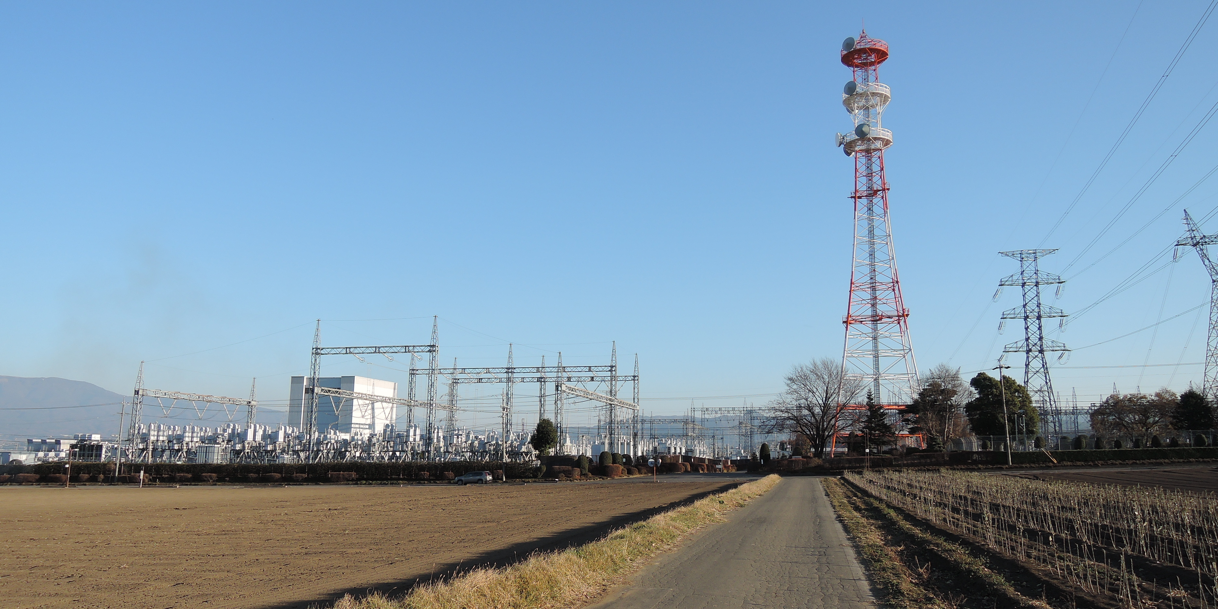 Shin-Chinano Frequency Converter, Nagano prefecture, Japan